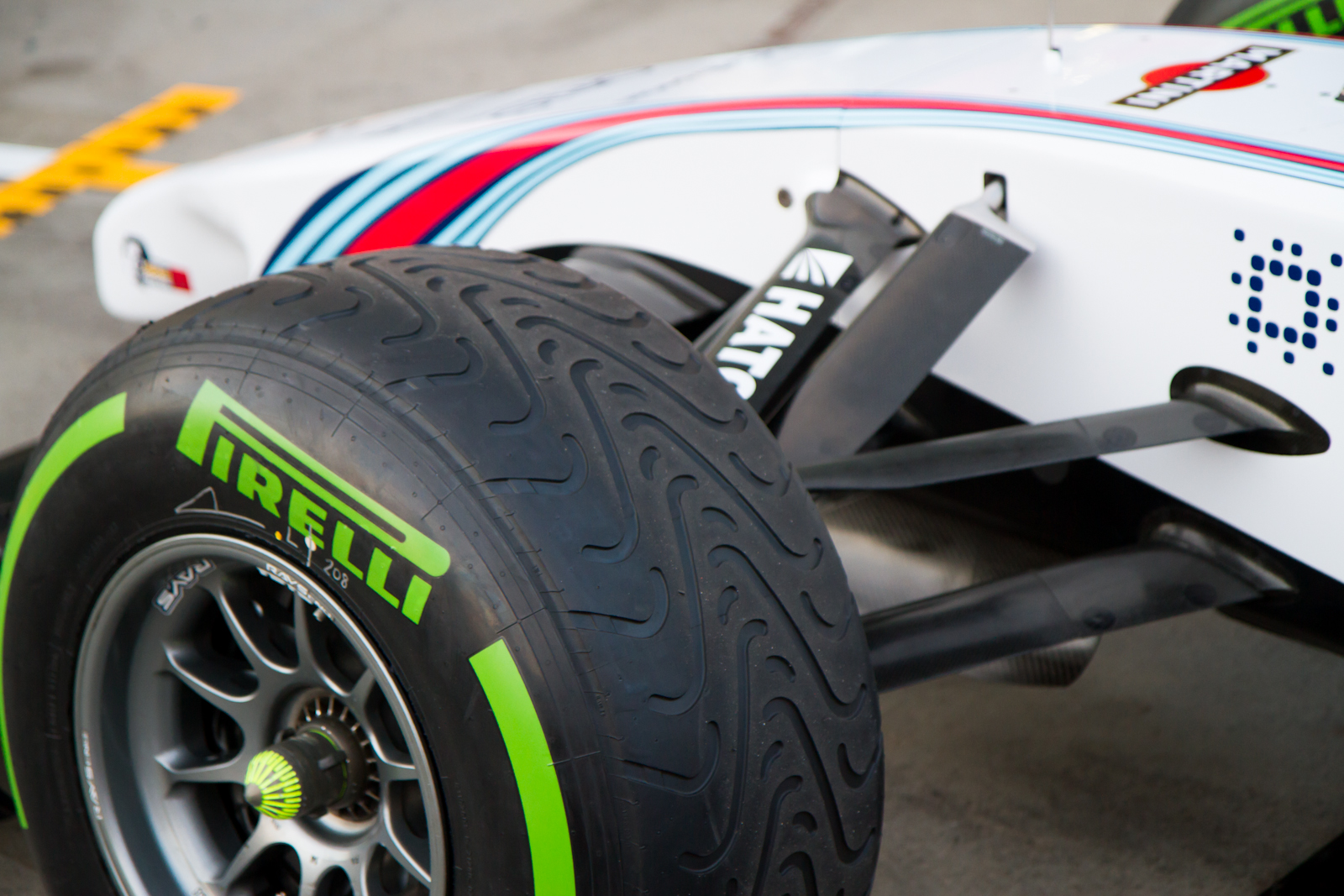 2014 Australian F1 Grand Prix